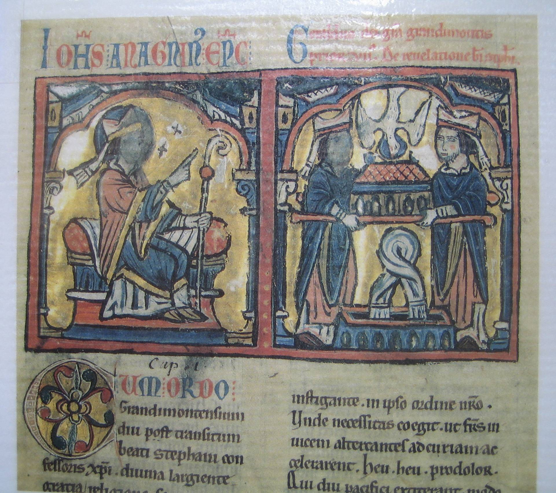 Miniature from Speculum Grandimontis, showing different ceremonies for Saint Stephen of Grandmont